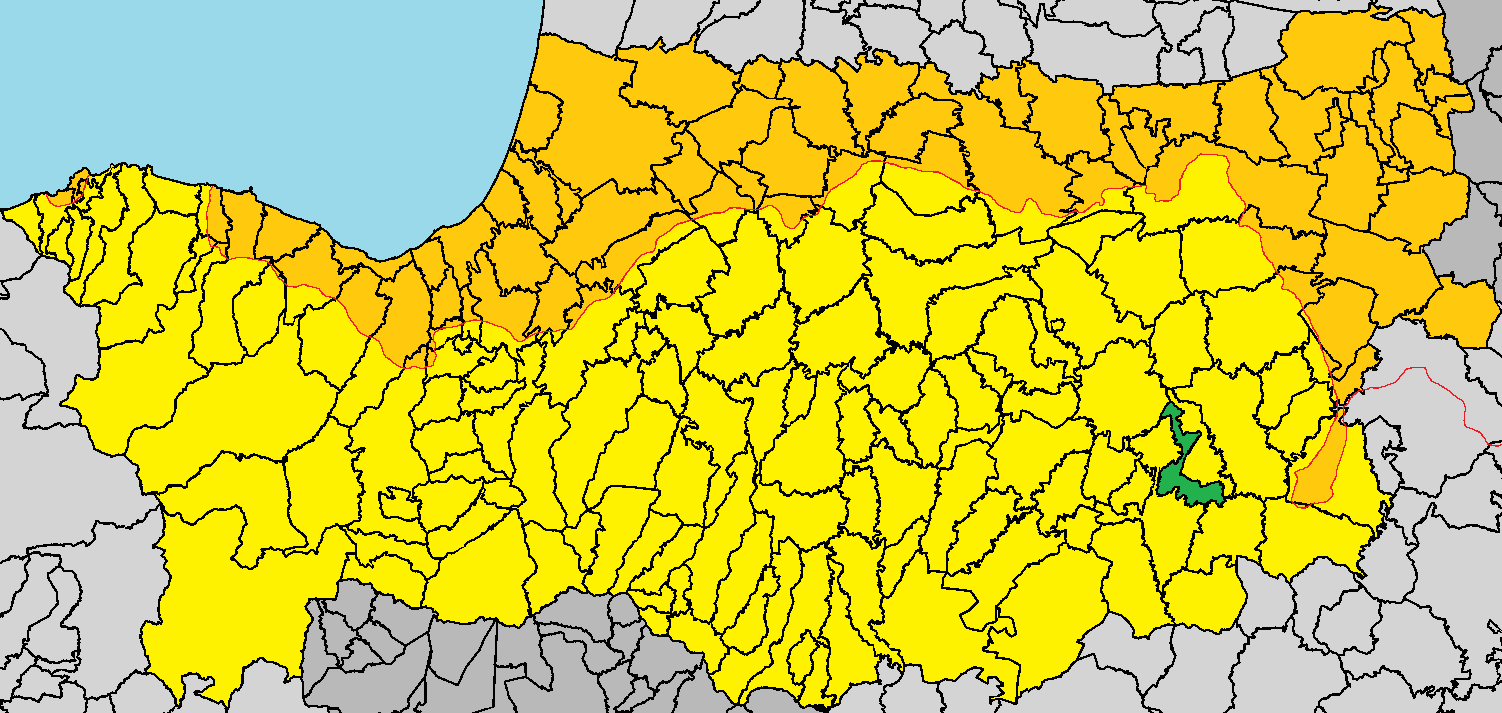 Pera Chorio in Nicosia District.